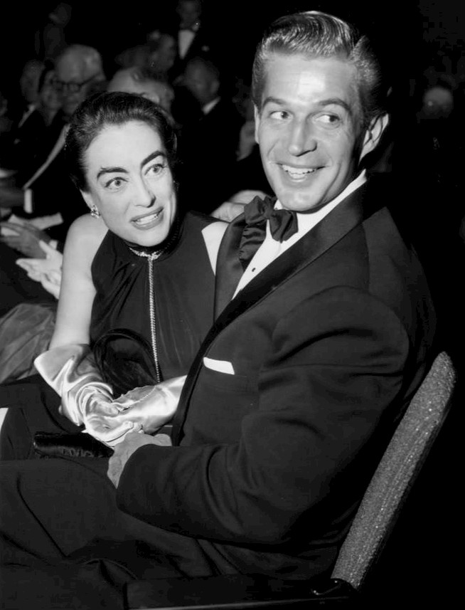 Photo of Joan Crawford and George Nader at a 1954 Hollywood premiere.